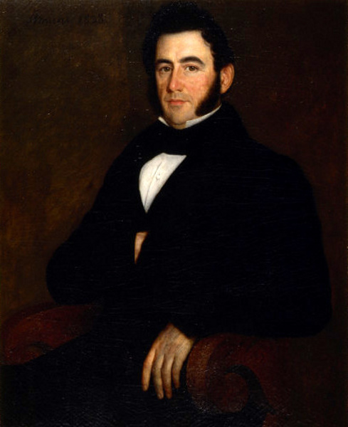 Portrait of François Gabriel "Valcour" Aimé (1797–1867), a gentleman planter of St. Charles Parish, Louisiana, said to have been the wealthiest man in the South during the first half of the nineteenth century.